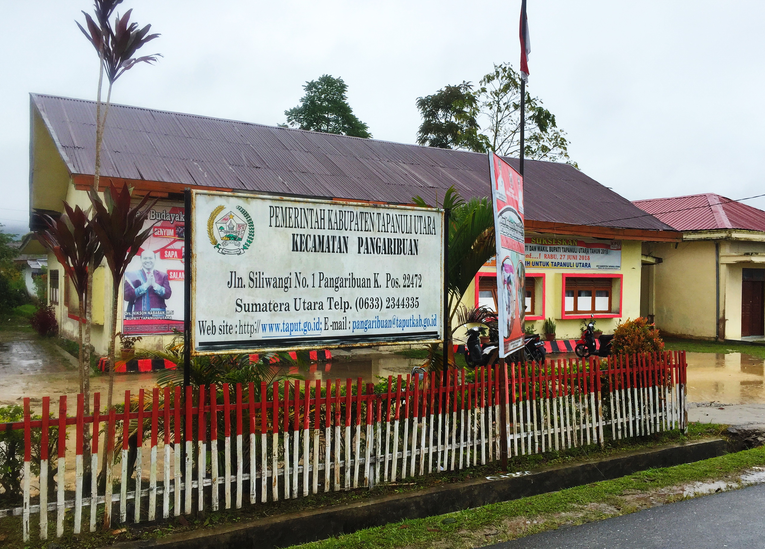 Office of Pangaribuan, Tapanuli Utara